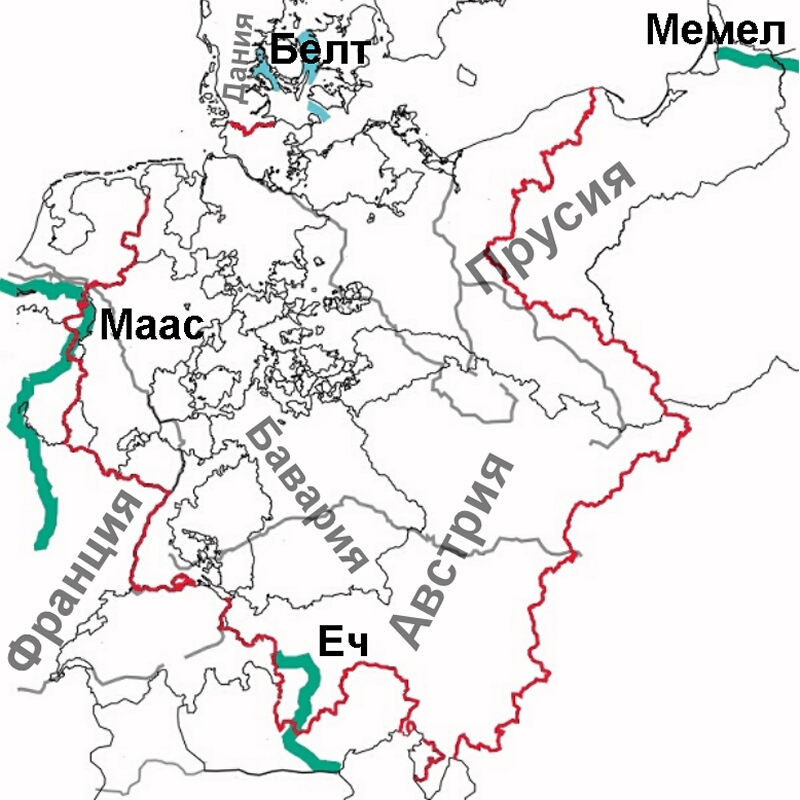 "...Von der Maas bis an die Memel, von der Etsch bis an den Belt..."; Border of the German Confederation (red)